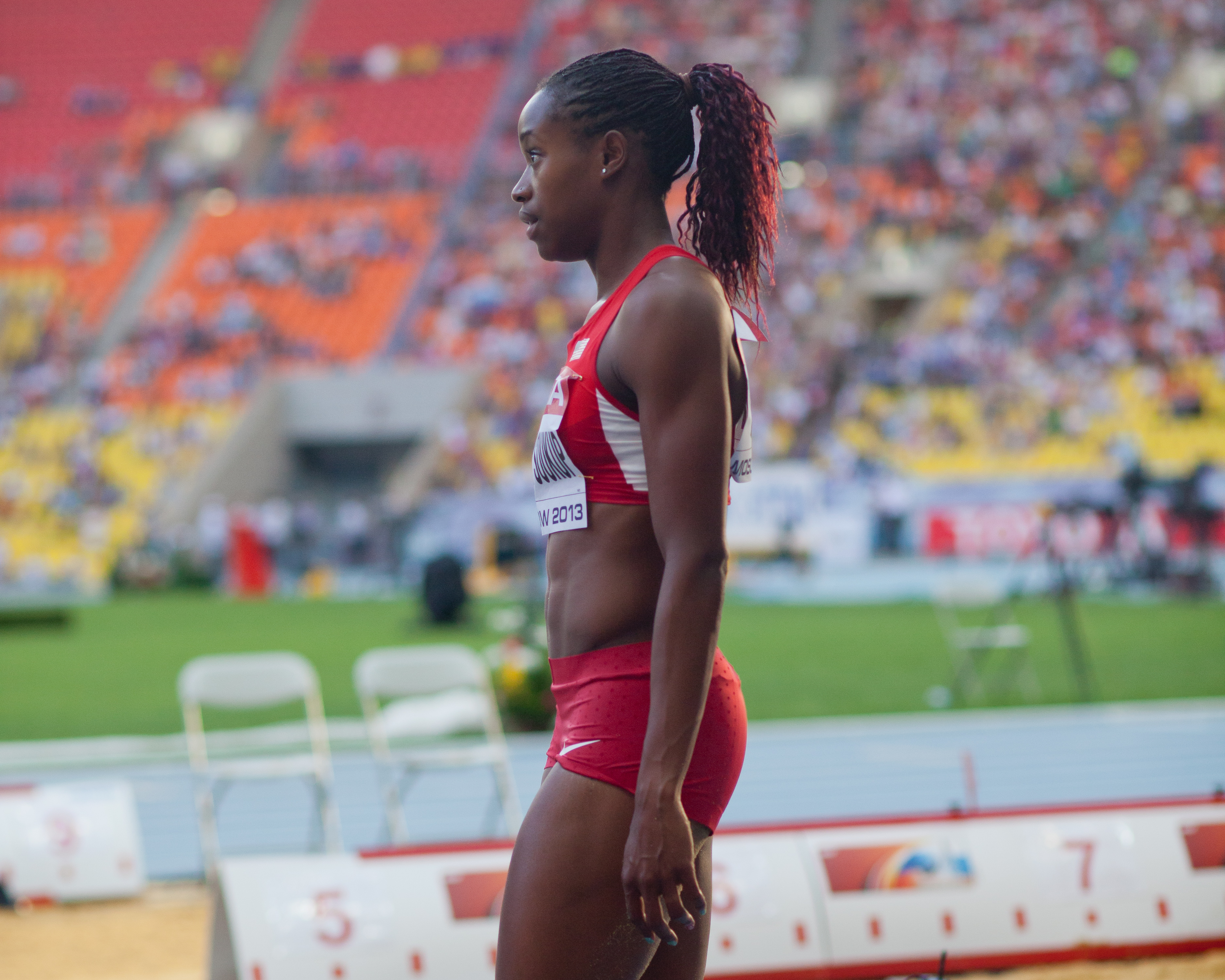 Janay DeLoach Soukup during 2013 World Championships in Athletics in Moscow.